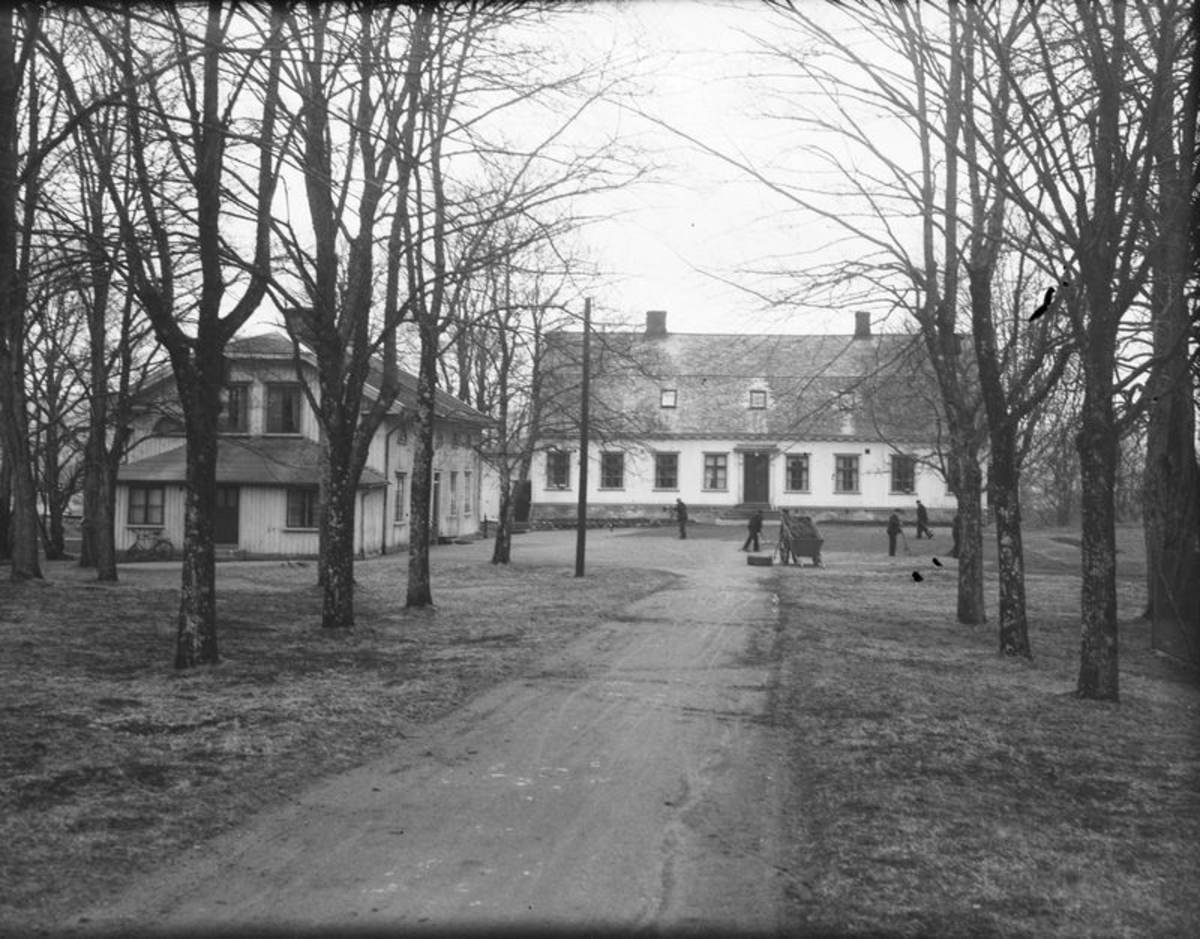 Restad seat farm in Vänersborg